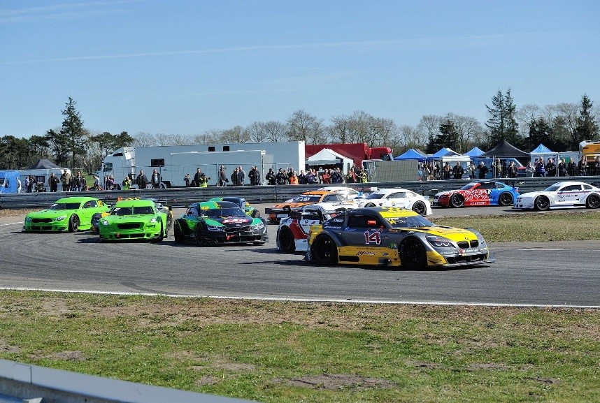 Mitjet Danemark